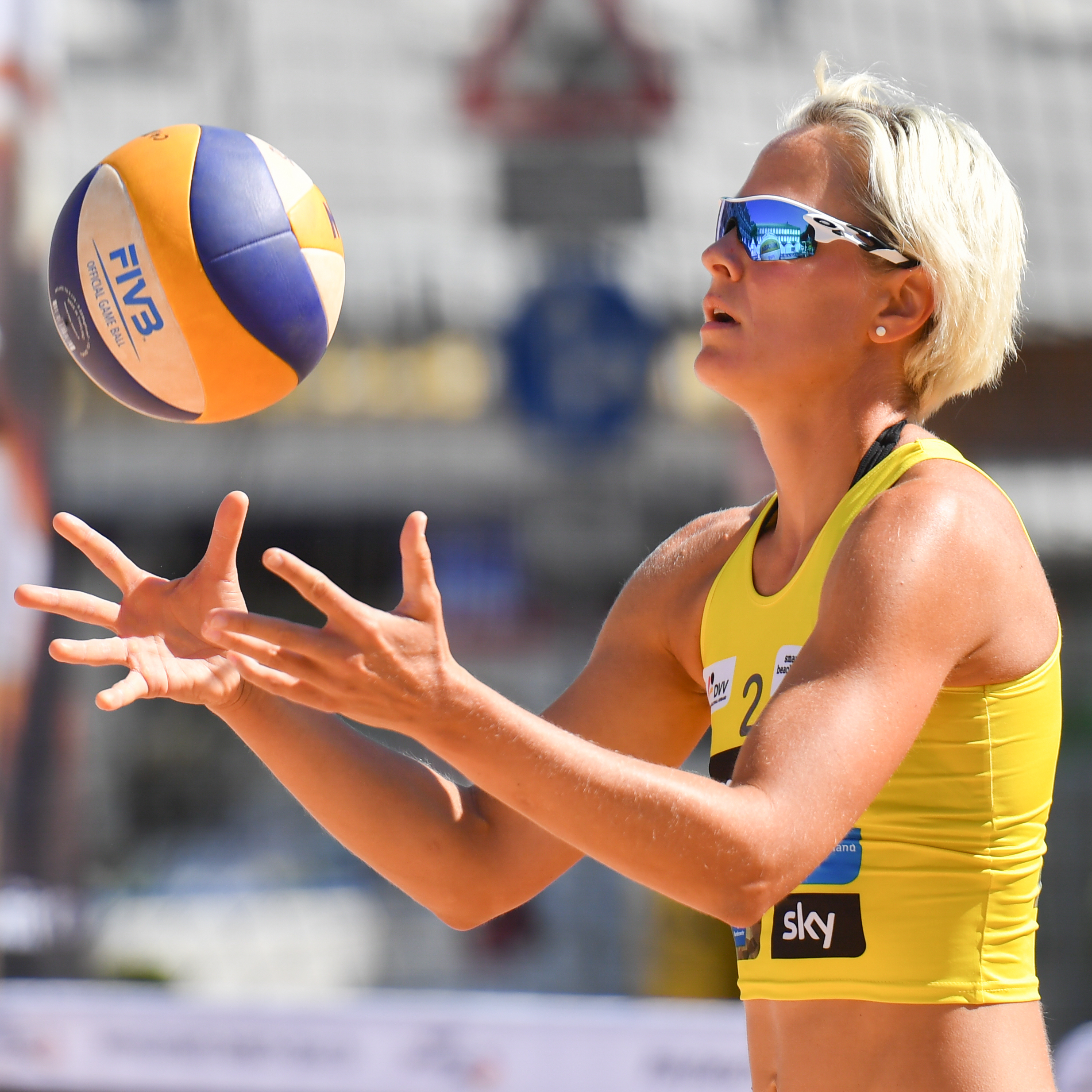 27/5/2017, Nuremberg, Germany, Sports, beach volleyball, smart beach cup Nuernberg.